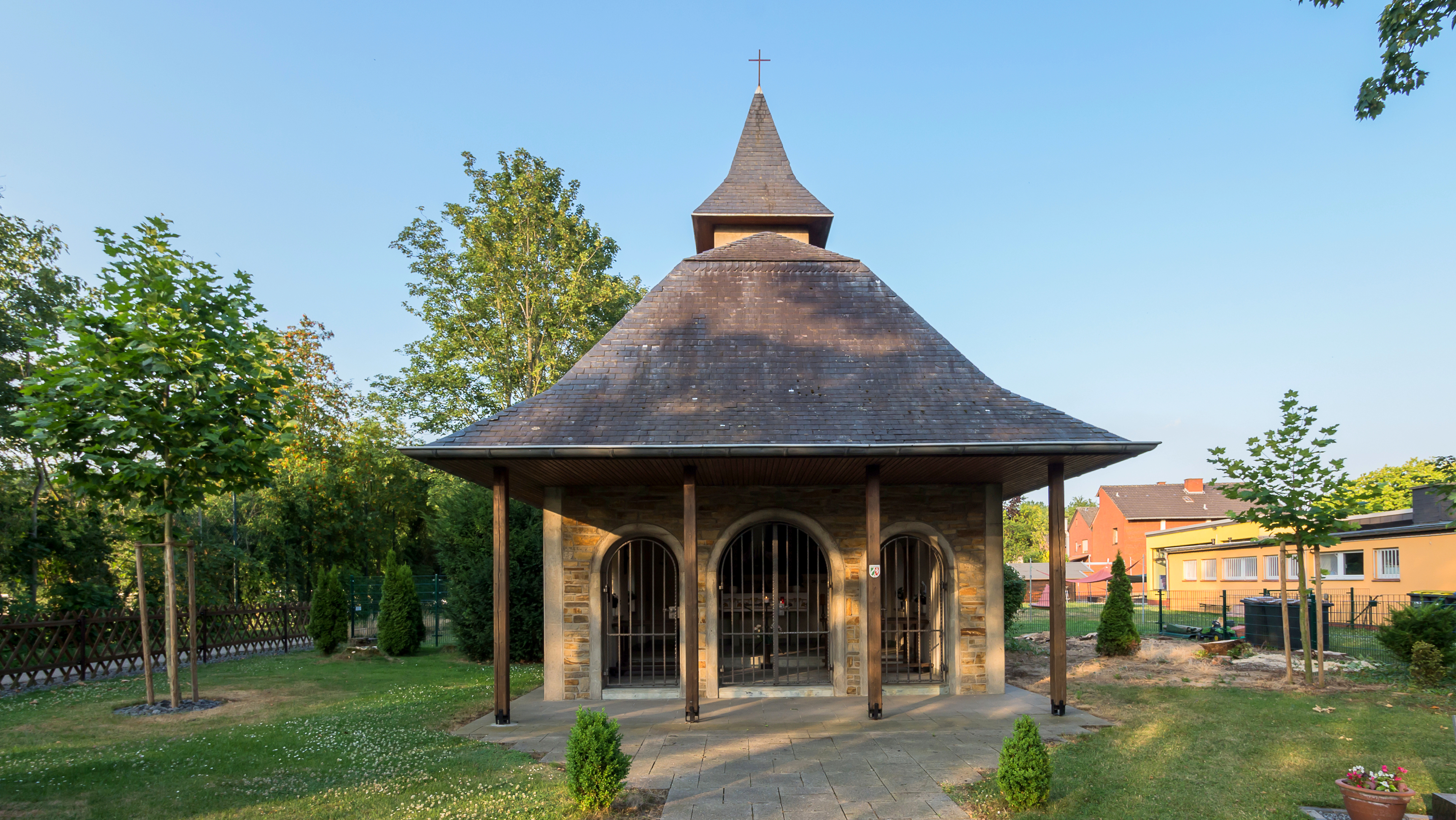 Kaster - Burgundische Straße 5 Banneux Kapelle (Marienkapelle aus Epprath) IIThis is a photograph of an architectural monument., no. 111